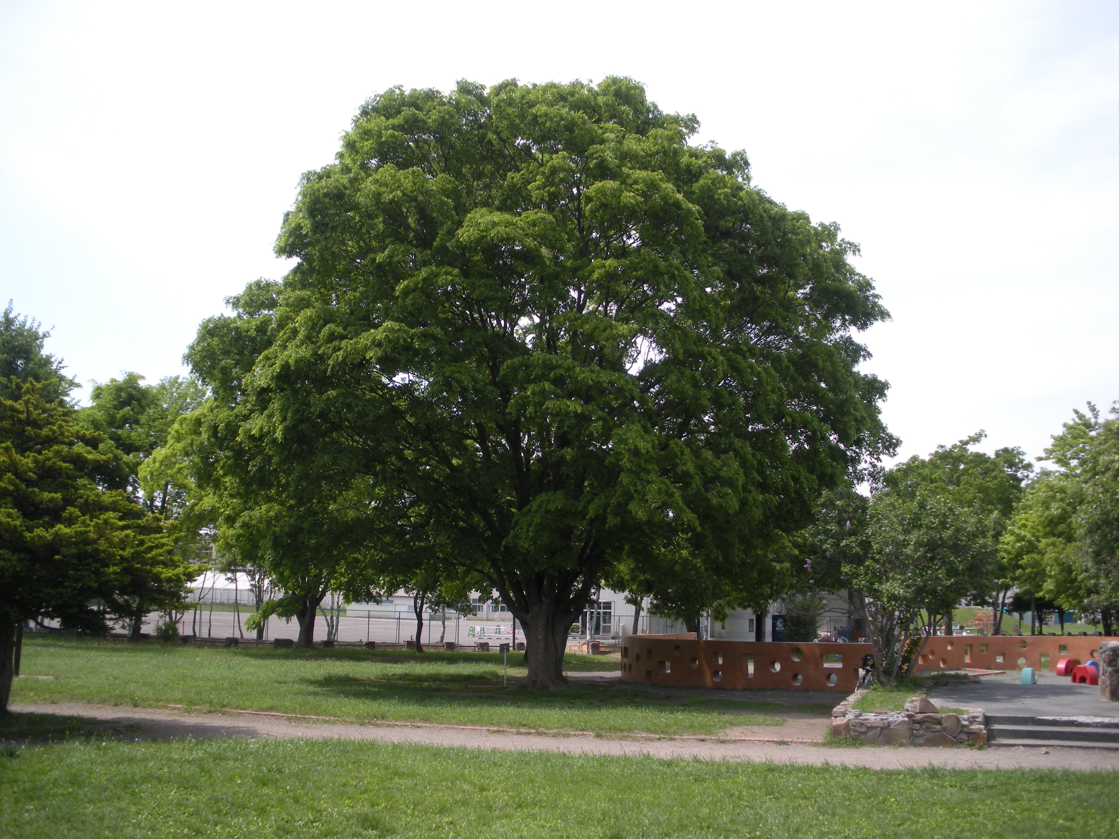 Zelkova serrata in Oasa HigashimachiPark Ebetsu, Hokkaido